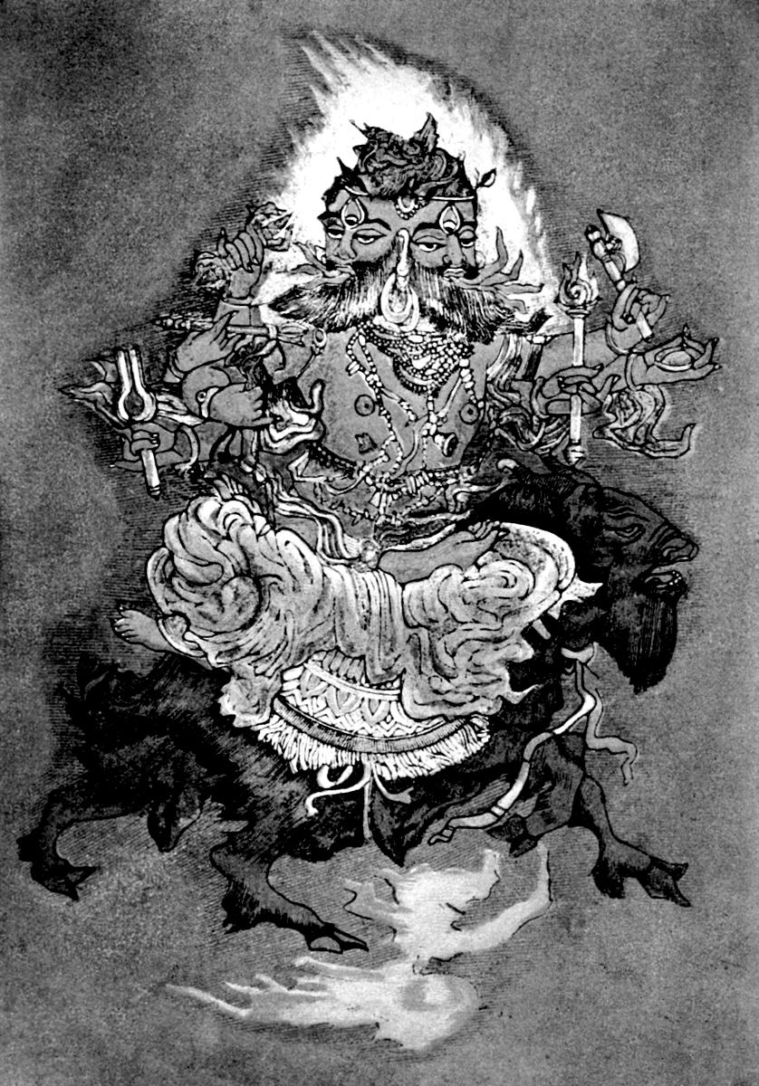 Agni, the Fire God, from a painting by Nandalal Bose (By permission of the Indian Society of Oriental Art, Calcutta), as published on the book Indian Myth and Legend, by Donald Alexander Mackenzie.